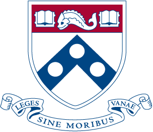 Shield of the University of Pennsylvania